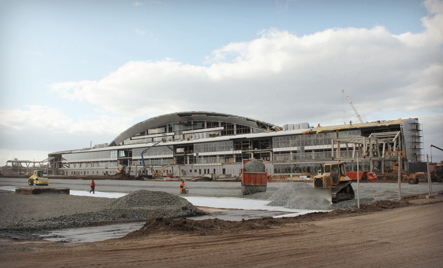 A picture of construction of the Kurmoch International Airport as of 19/09/2014.